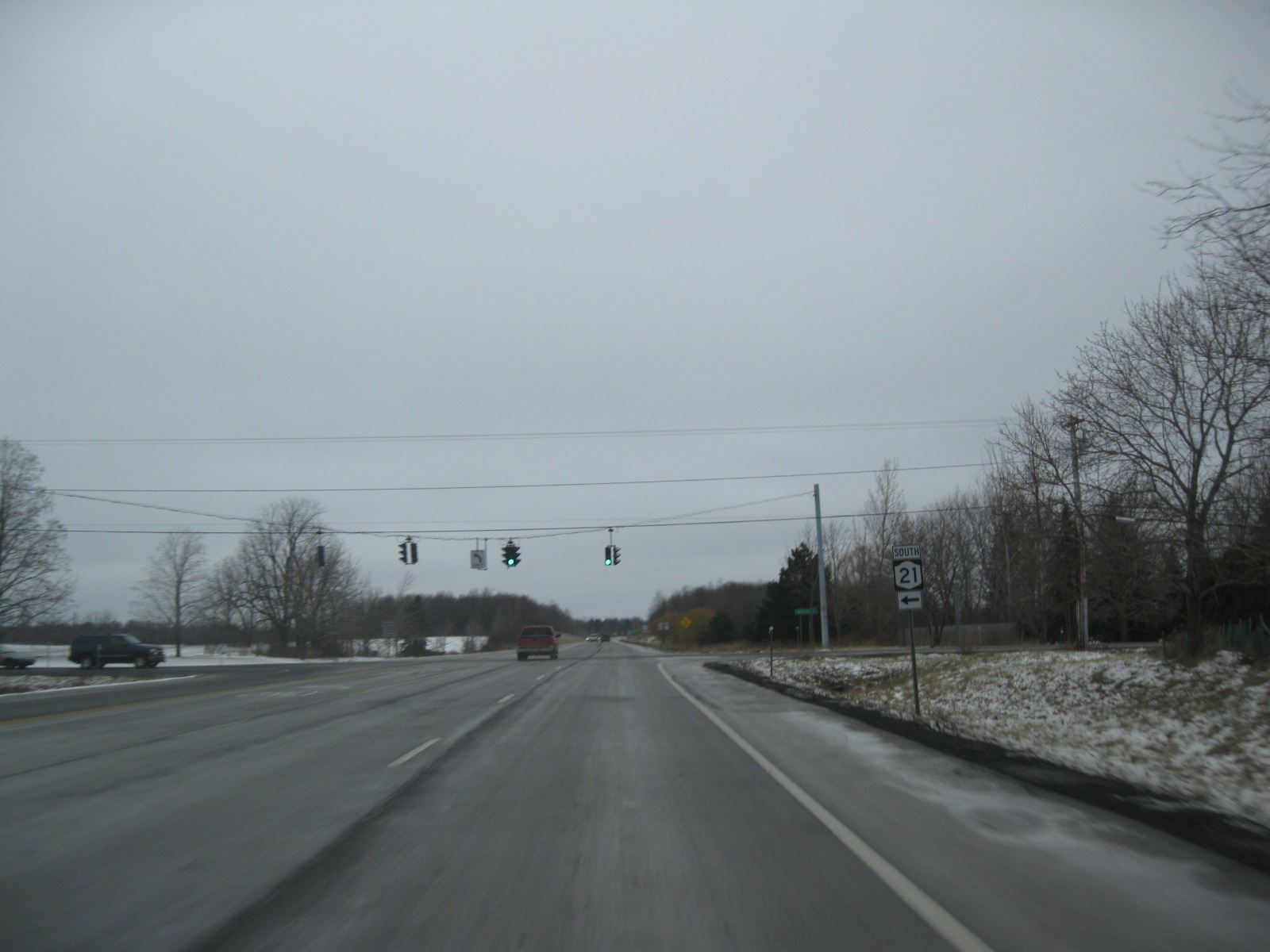 The west end of the overlap between U.S. Route 20, New York State Route 5, and New York State Route 21 west of Canandaigua. NY 21 leaves to the left (west) while US 20 and NY 5 continue northwestward to the end of the Canandaigua bypass at West Avenue Extension, faintly visible in the background.